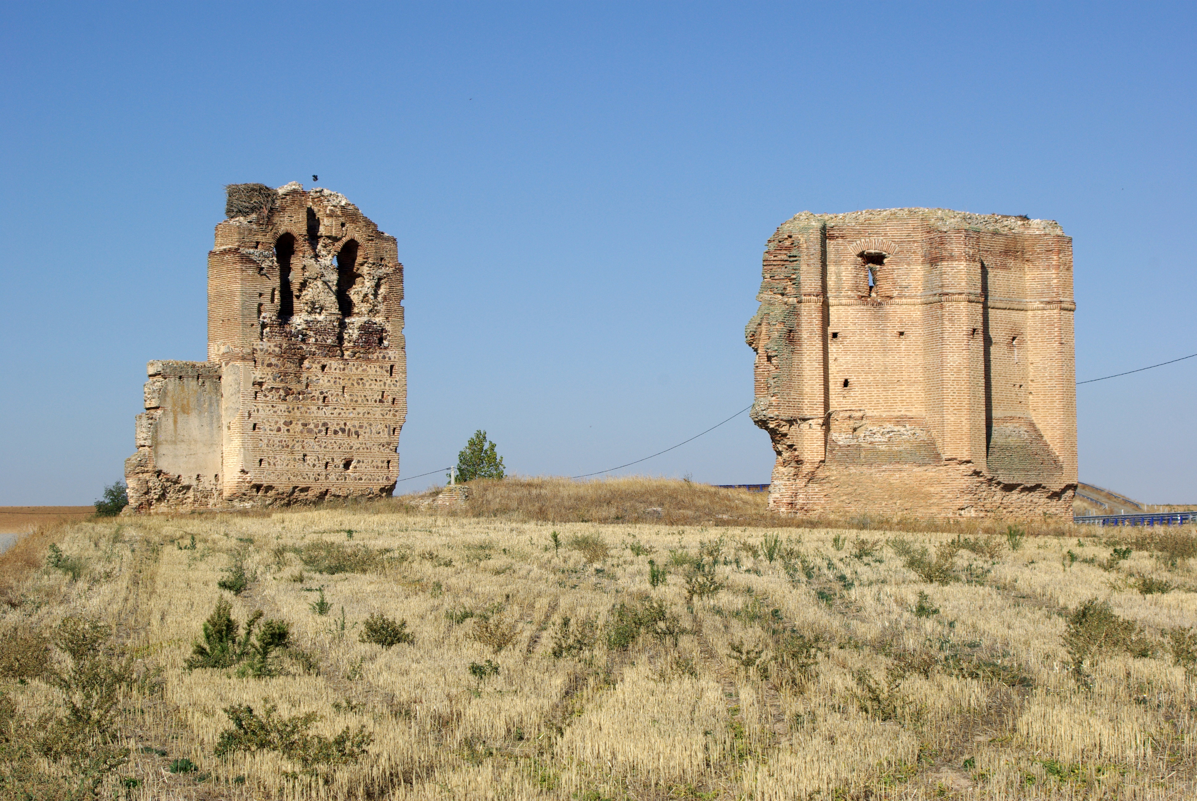 Ruins of the Castronuevo palace church in Rivilla de Barajas (Ávila, Spain).